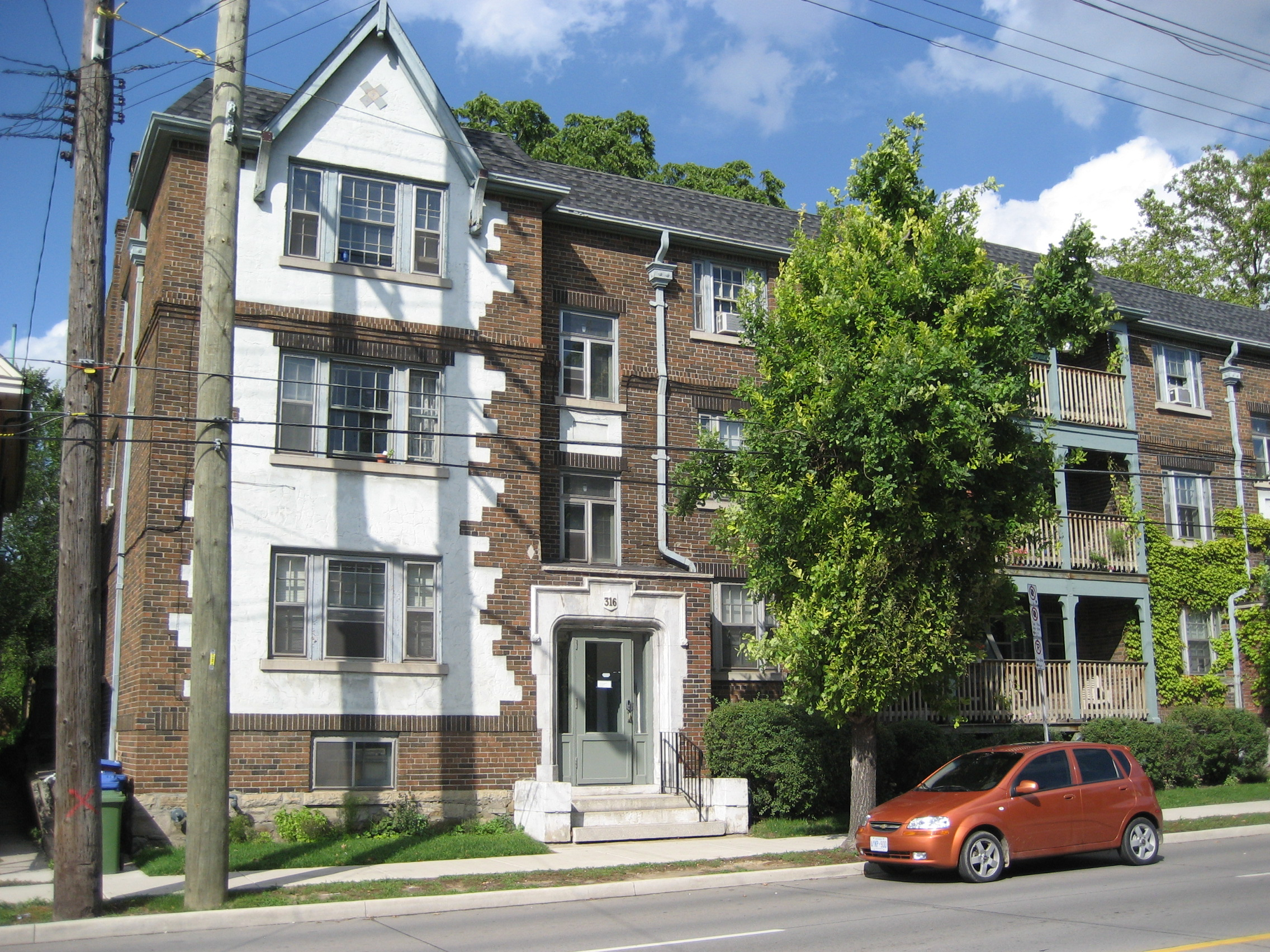 Apartment complex, Aberdeen Avenue, Hamilton, Canada.